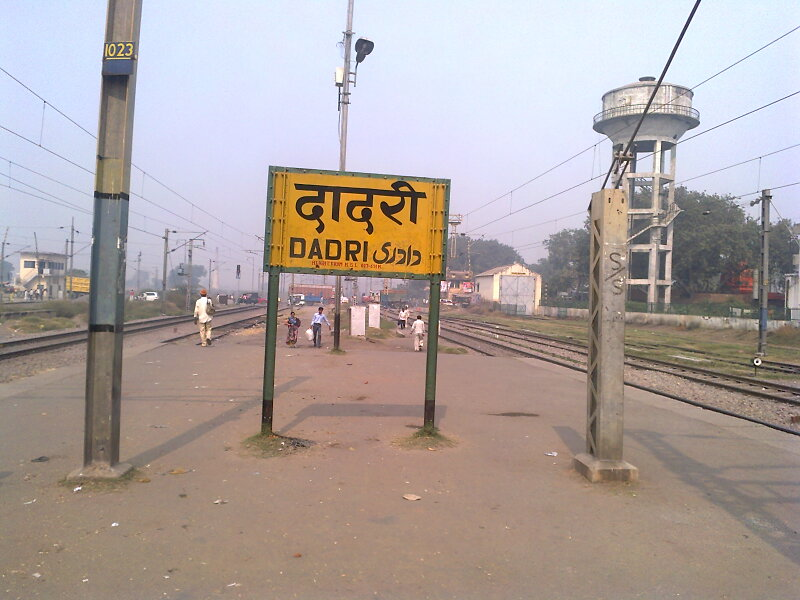 IN Dadri railway Station everyday minimum 25,000 person everyday travels,because it's join Noida to Aligarh, Ghaziabadas well as join our country capital Delhi,,,, It's a very enjoy full city every person in this city live there life enjoy full or joyfully..